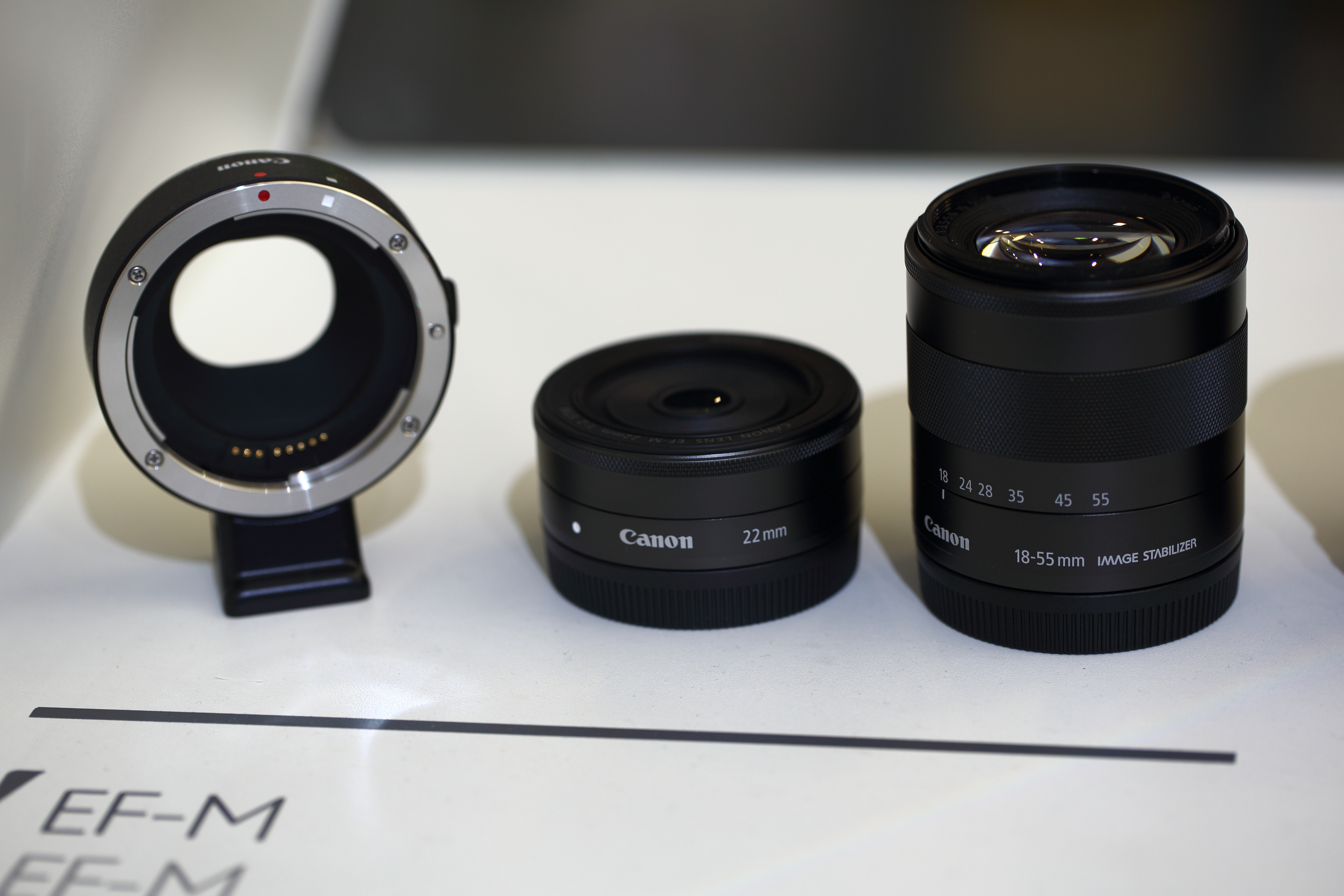 Canon EF-M lenses and Canon EF/EF-S adapter on display at Photokina 2012.